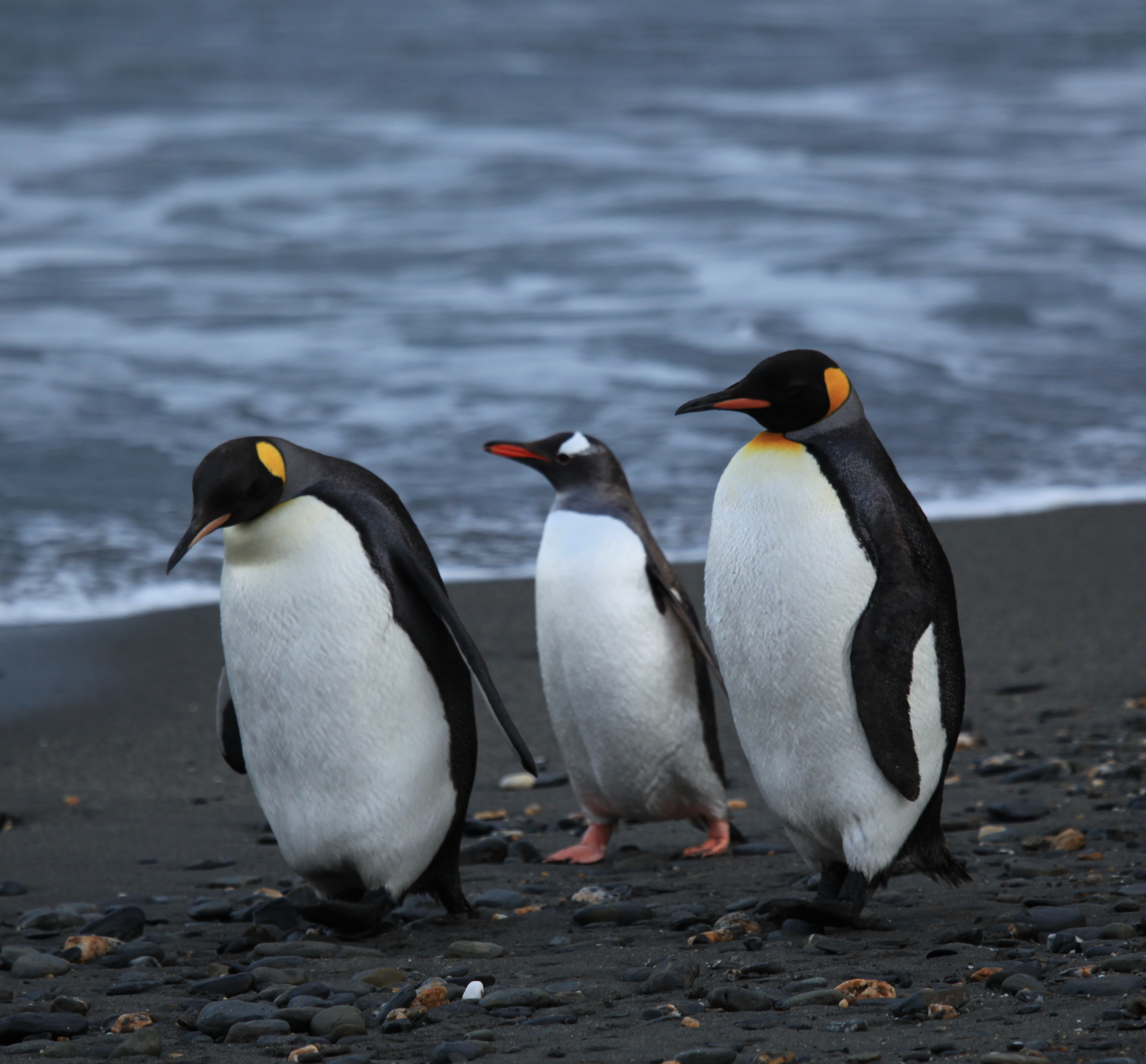 One Gentoo Penguin and two King Penguins walking on the beach at Moltke Harbour, South Georgia, British overseas territory, UK.